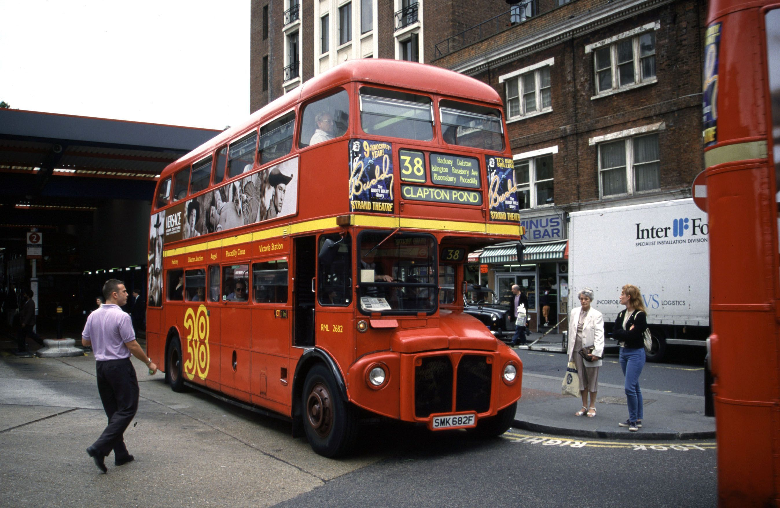 2682-SMK682F 0898 CPS